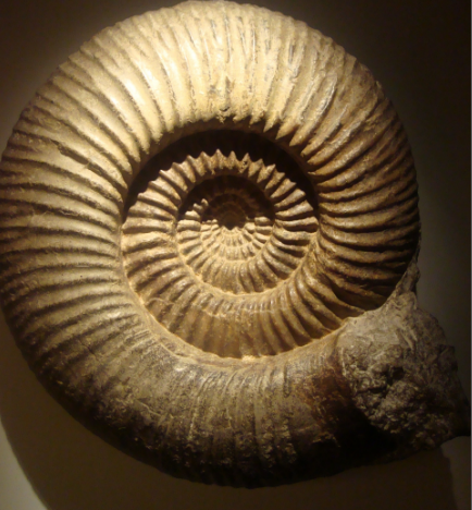 Titanites giganteus at the Emmen Zoo Biochron